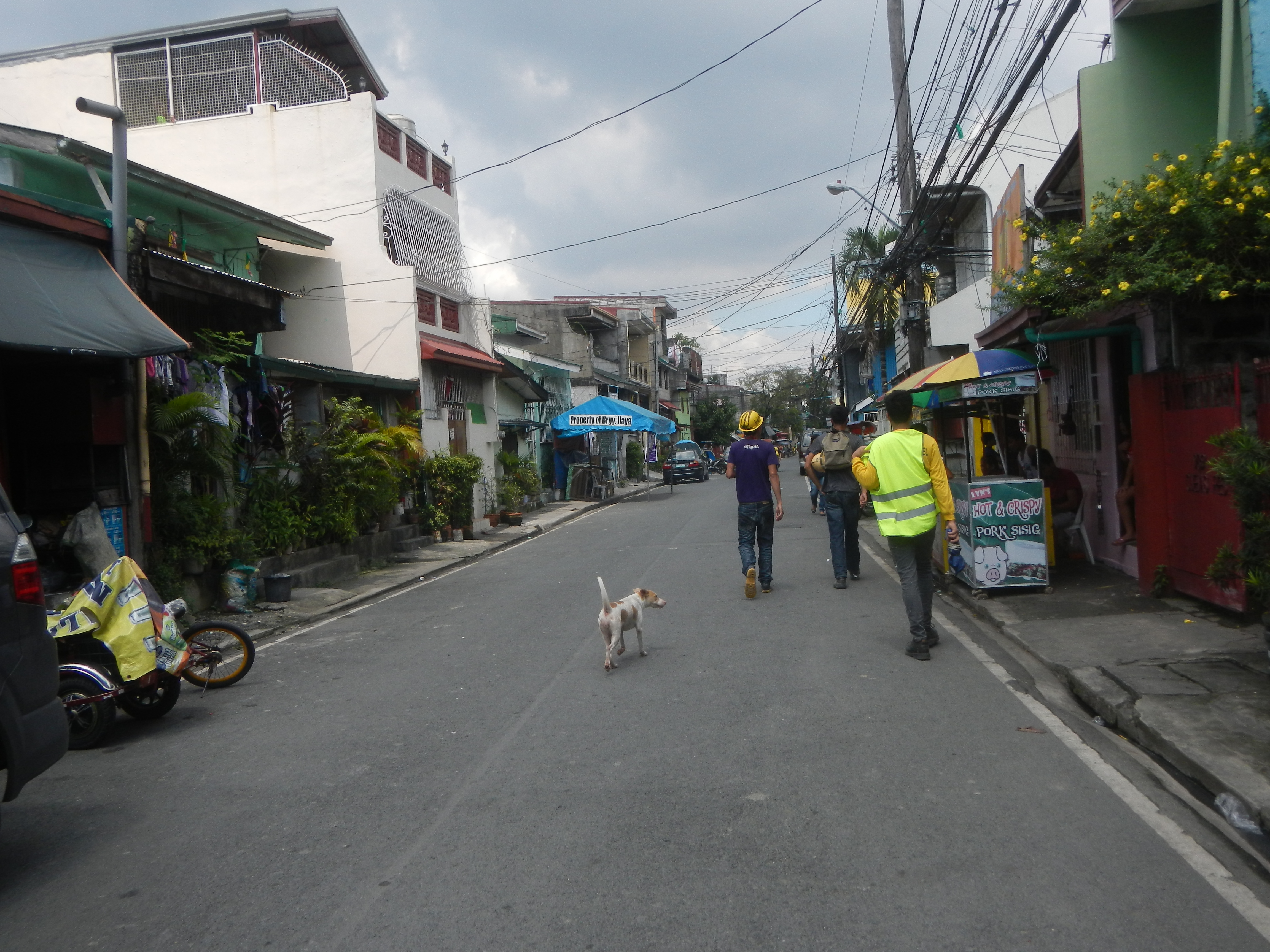 Coconut husk fibers Coconut husk Coconet (coconut geotextile) Elias Aldana, Las Piñas City Coconet Factory Elias Aldana, Las Piñas City Parol Center; Ilaya Elementary School, Las Piñas City; Tramo Street, Las Piñas City; Elias Aldana, Las Piñas City Coconet Factory; Tramo Road in Barangays Barangays Elias Aldana 14°28'42"N 120°58'34"E Ilaya 14°28'37"N 120°58'46"E from Manuyo Uno (Las Piñas) 14°28'52"N 120°59'9"E Las Piñas along Diego Cera Avenue to Elpidio Quirino Avenue to Roxas Boulevard, Radial Road 2 from Baclaran LRT station (Note: Judge Florentino Floro, the owner, to repeat, Donor Florentino Floro of all these photos hereby donate gratuitously, freely and unconditionally Judge Floro all these photos to and for Wikimedia Commons, exclusively, for public use of the public domain, and again without any condition whatsoever).